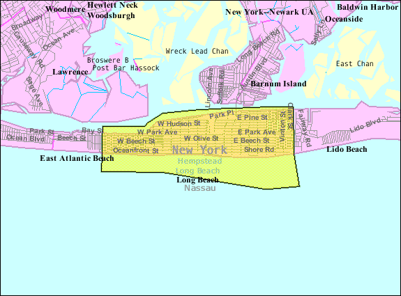 U.S. Census 2000 reference map for Long Beach, New York